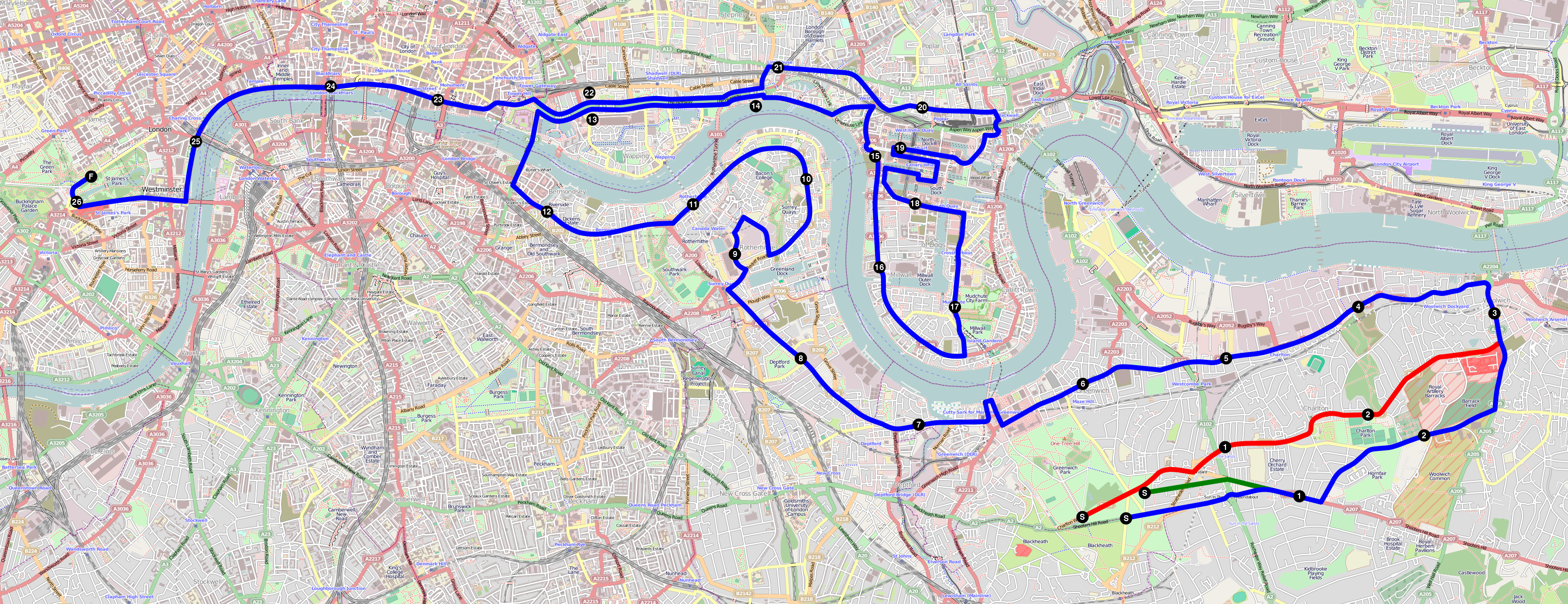 Route of the London Marathon. Miles are circled.